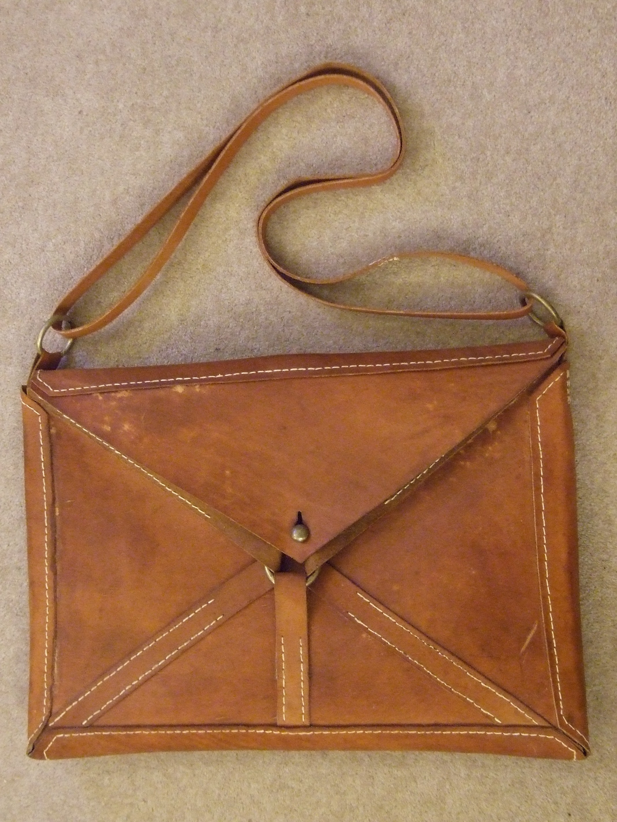 A reconstruction of a Roman legionaries bag, known as a loculus - overview.